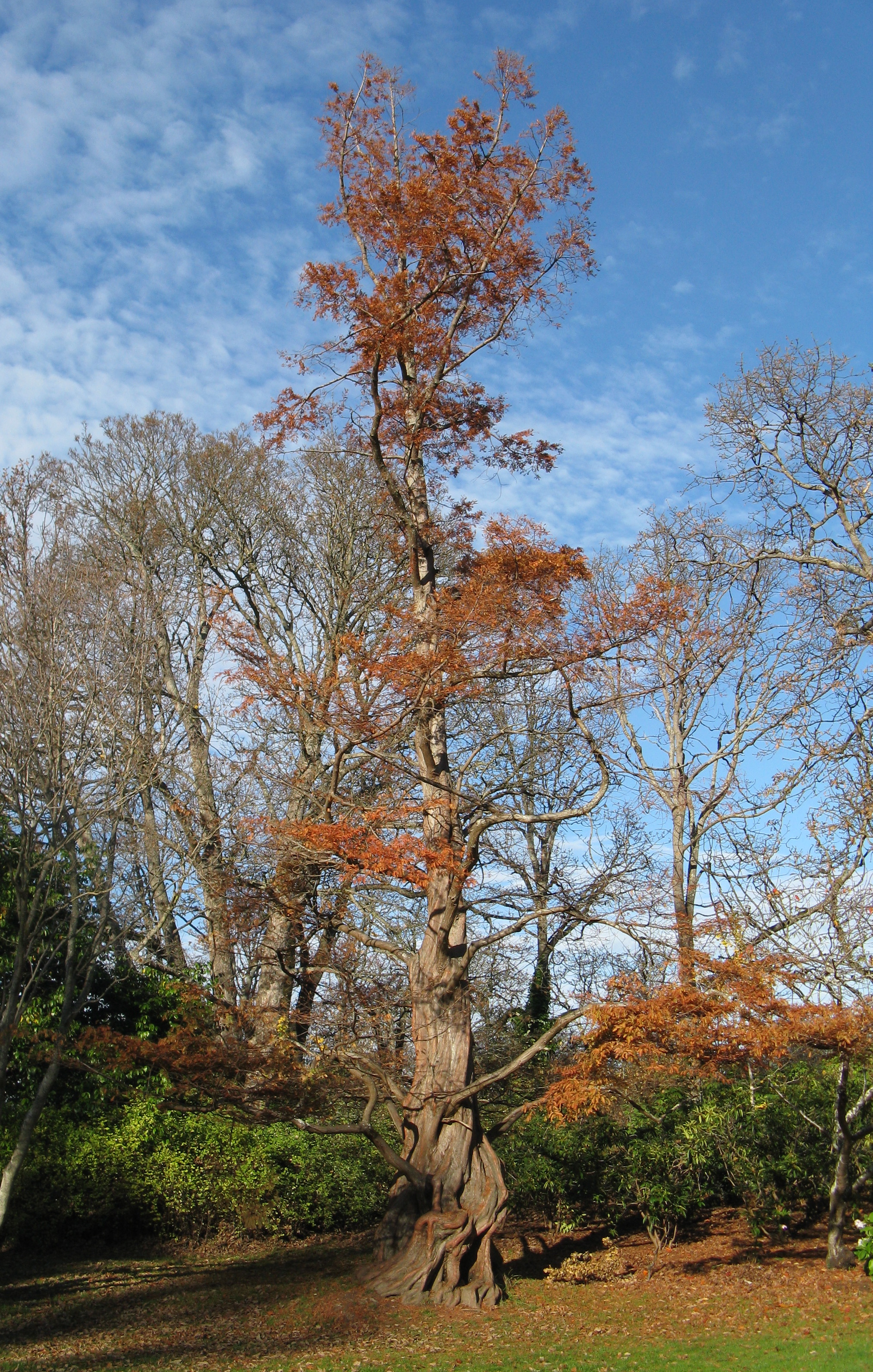 Metasequoia glyptostroboides in autumn colours; beacon hill park, victoria, British Columbia, Canada